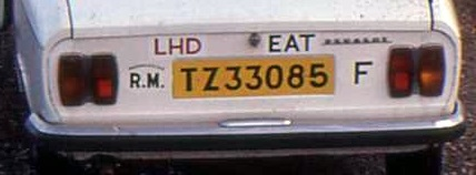 Peugeot 304 at Mikumi National Park with LHD-sticker